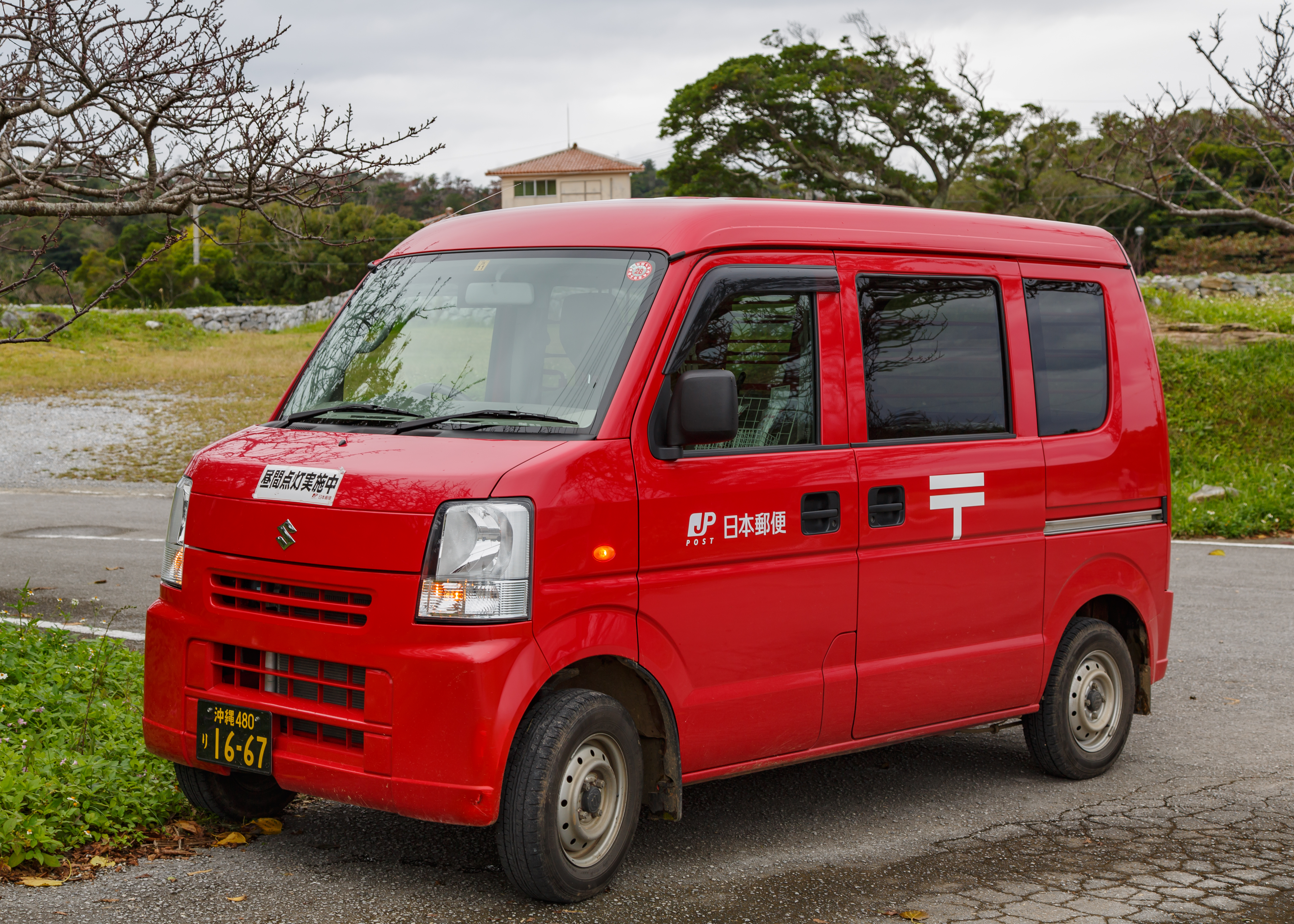 Nakijin, Okinawa, Japan: Post van parking at Nakijin Castle.